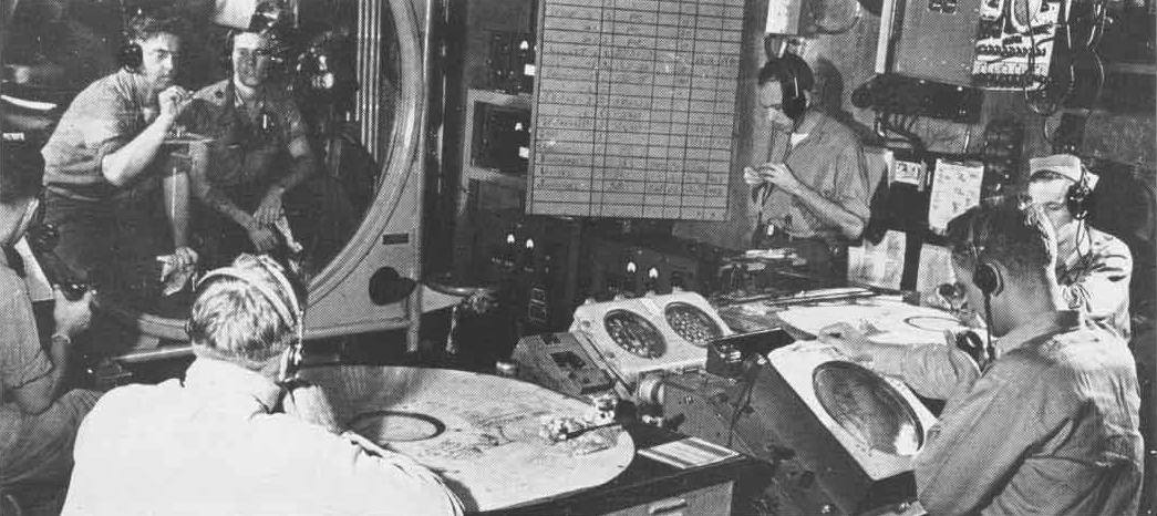 View of the combat information center aboard U.S. Navy light aircraft carrier USS Independence (CVL-22) during the Second World War.